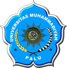 Logo Universitas Muhammadiyah Palu